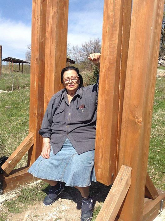 Проф.Ана Радунчева на светилище Орлови скали край село Сърница.